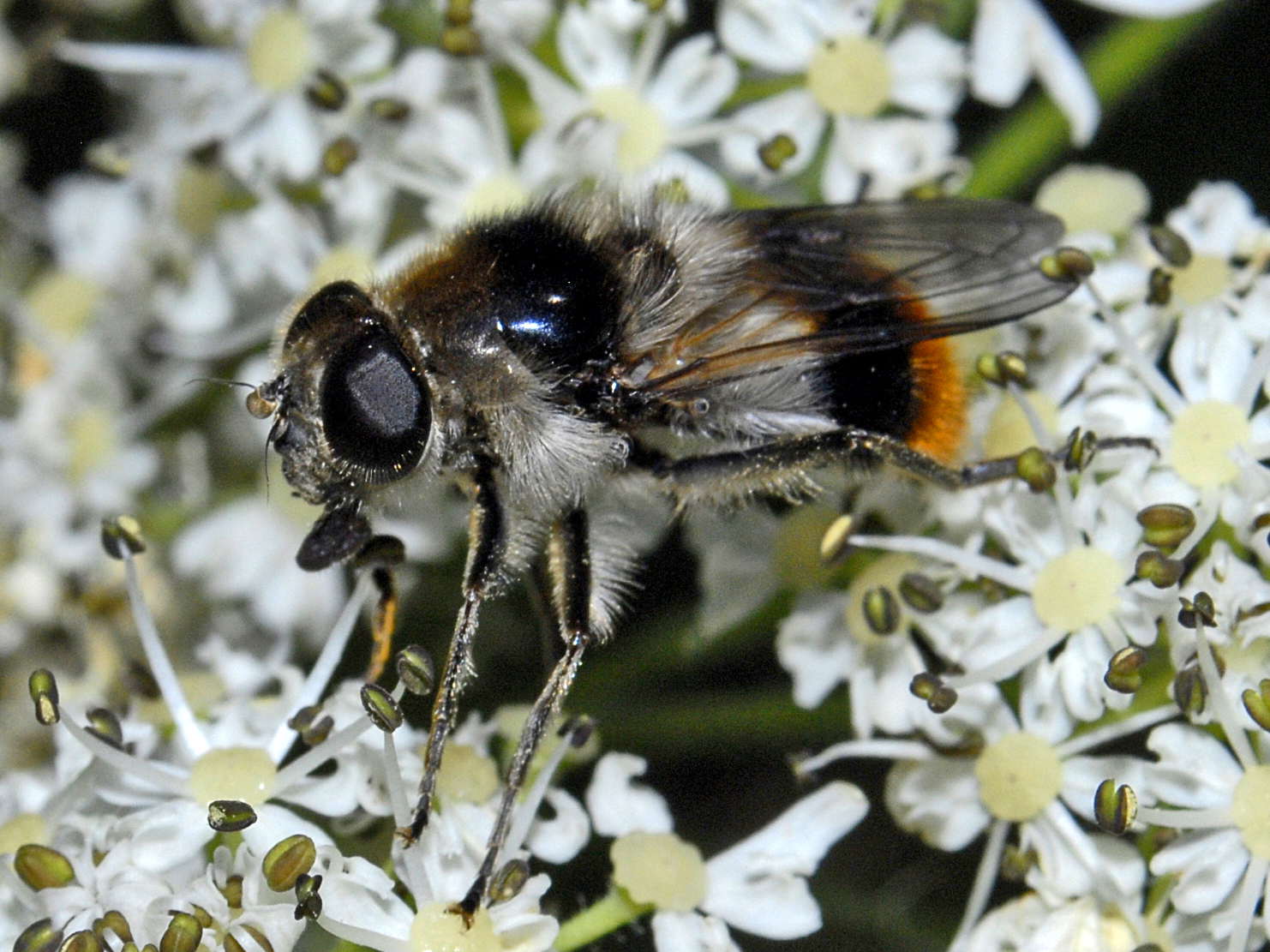 Female of Cheilosia illustrata. Pragelato, Turin, Italy